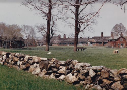 The original farm